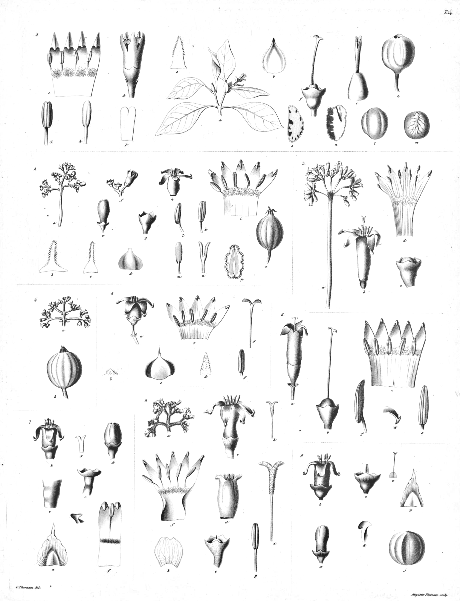 Plate from book